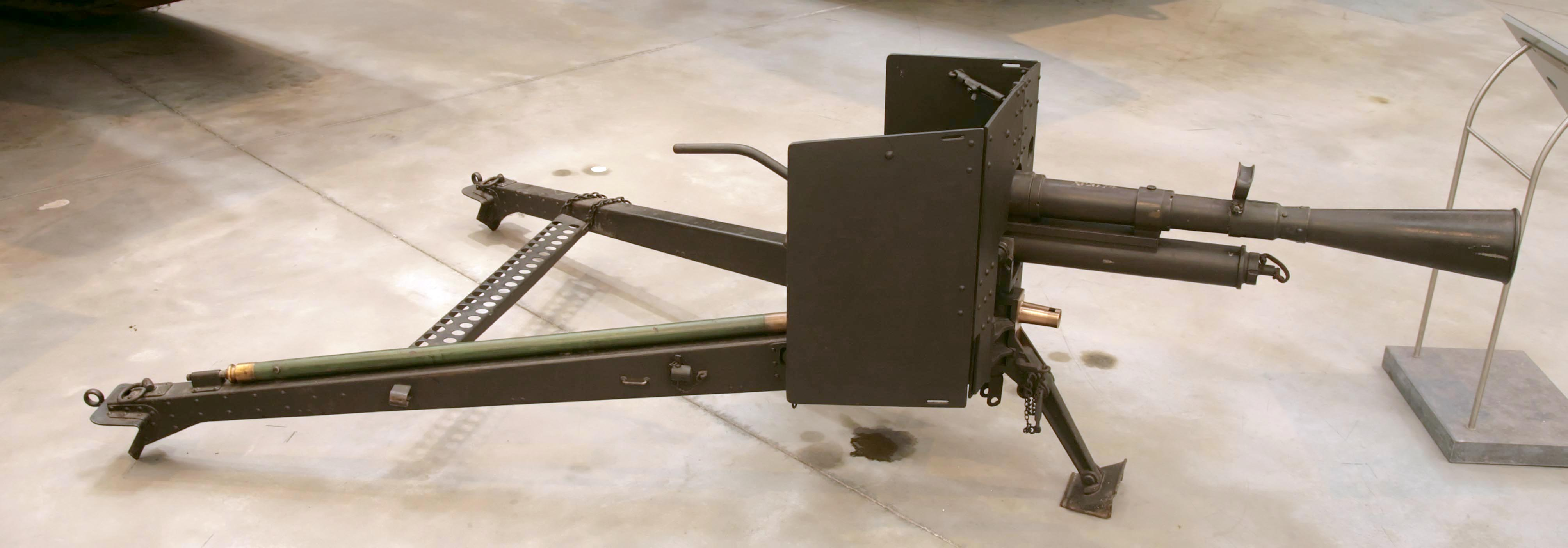 A French First World War 37 mm M1916 Infantry gun in the Brussels Army Museum Photo by myself and released into the public domain. A photo credit would be nice.